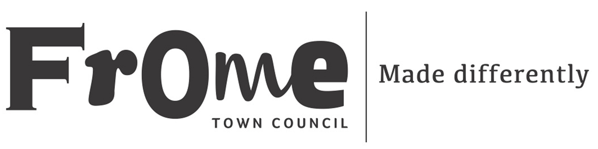 Town Council logo, Frome, Somerset: "Made differently" slogan is echoed by different fonts in the 'Frome' element